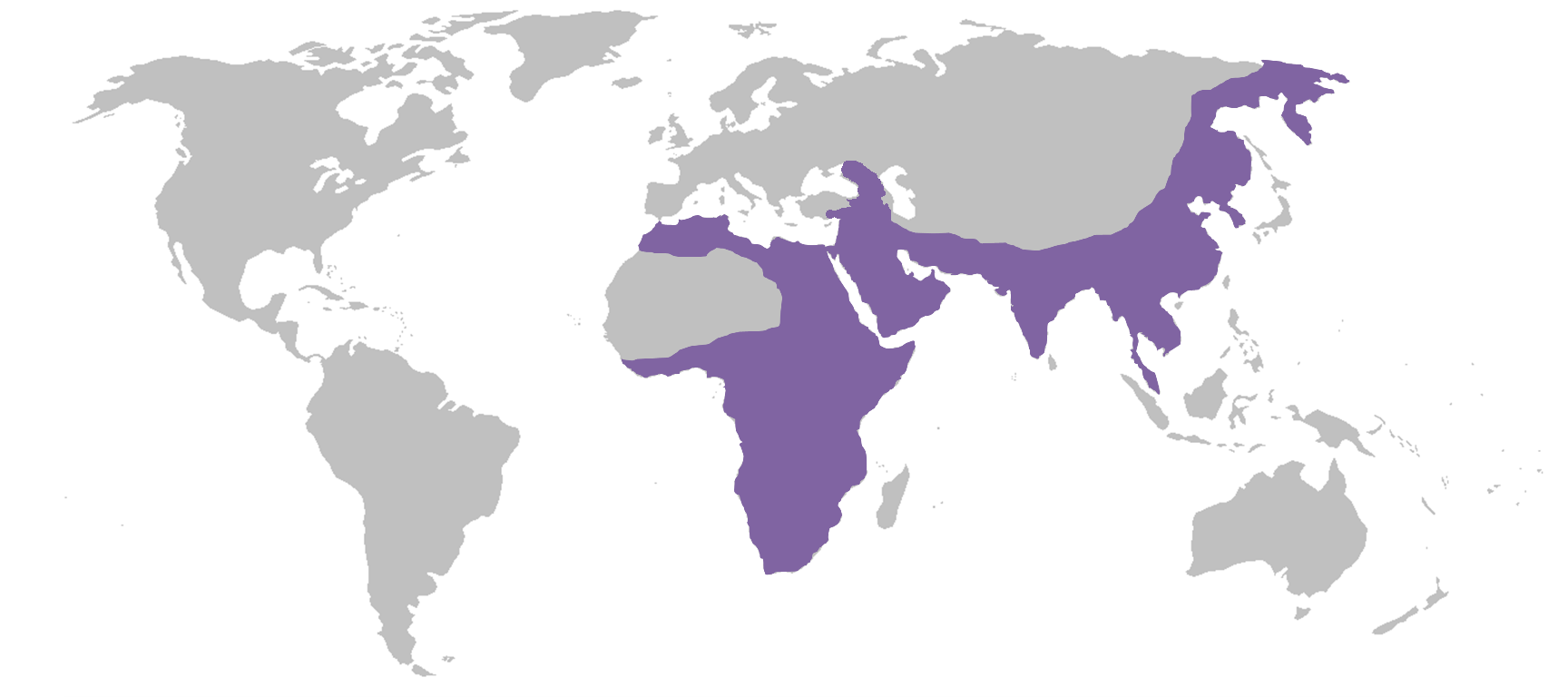 Leopard (Panthera pardus) range map.